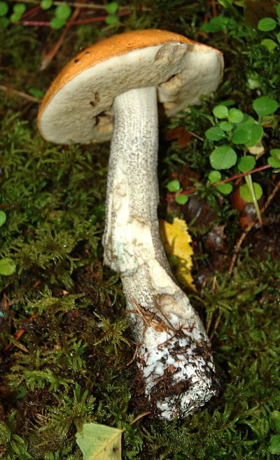 Rødskrubb - Leccinum versipelle